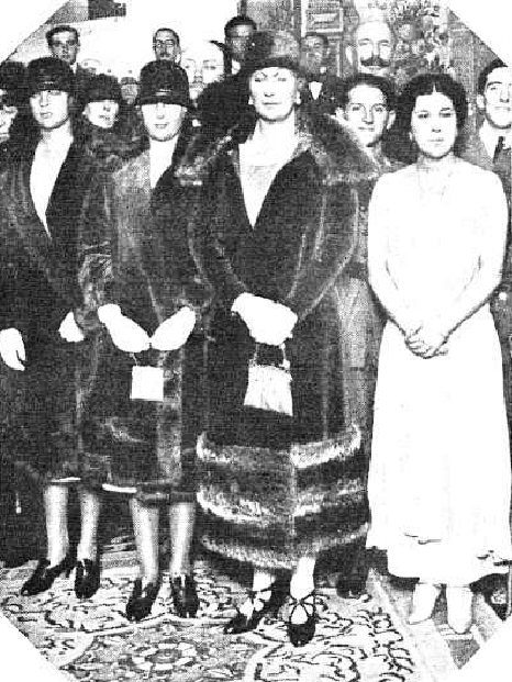 Queen Victoria and her daughters, with artist La Argentinita, after the festival that took place in the hospital of the wounded in the war of Morocco.